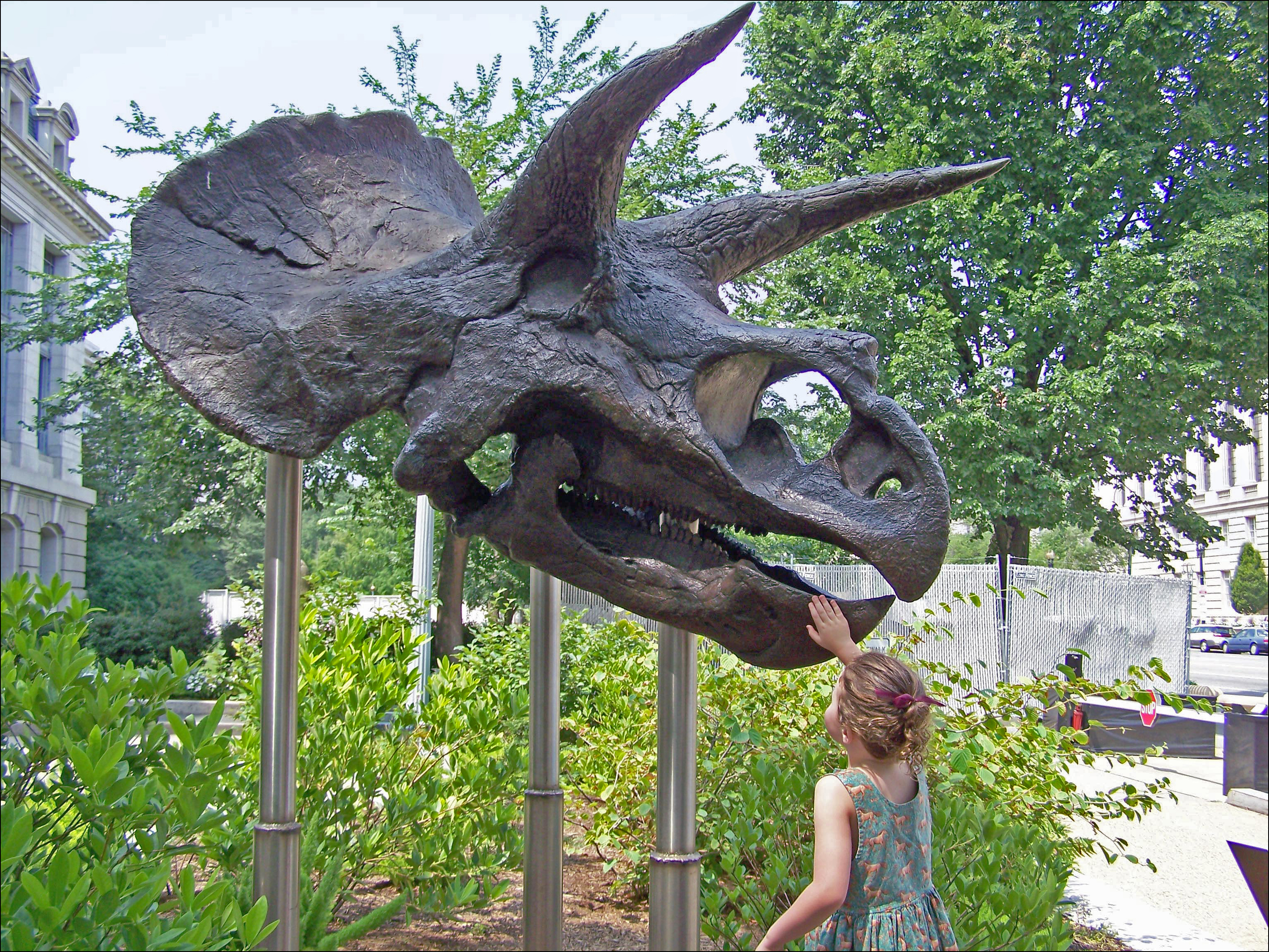 Triceratops skull cast in the entrance to the Smithsonian National Museum of Natural History, Washington DC, United States